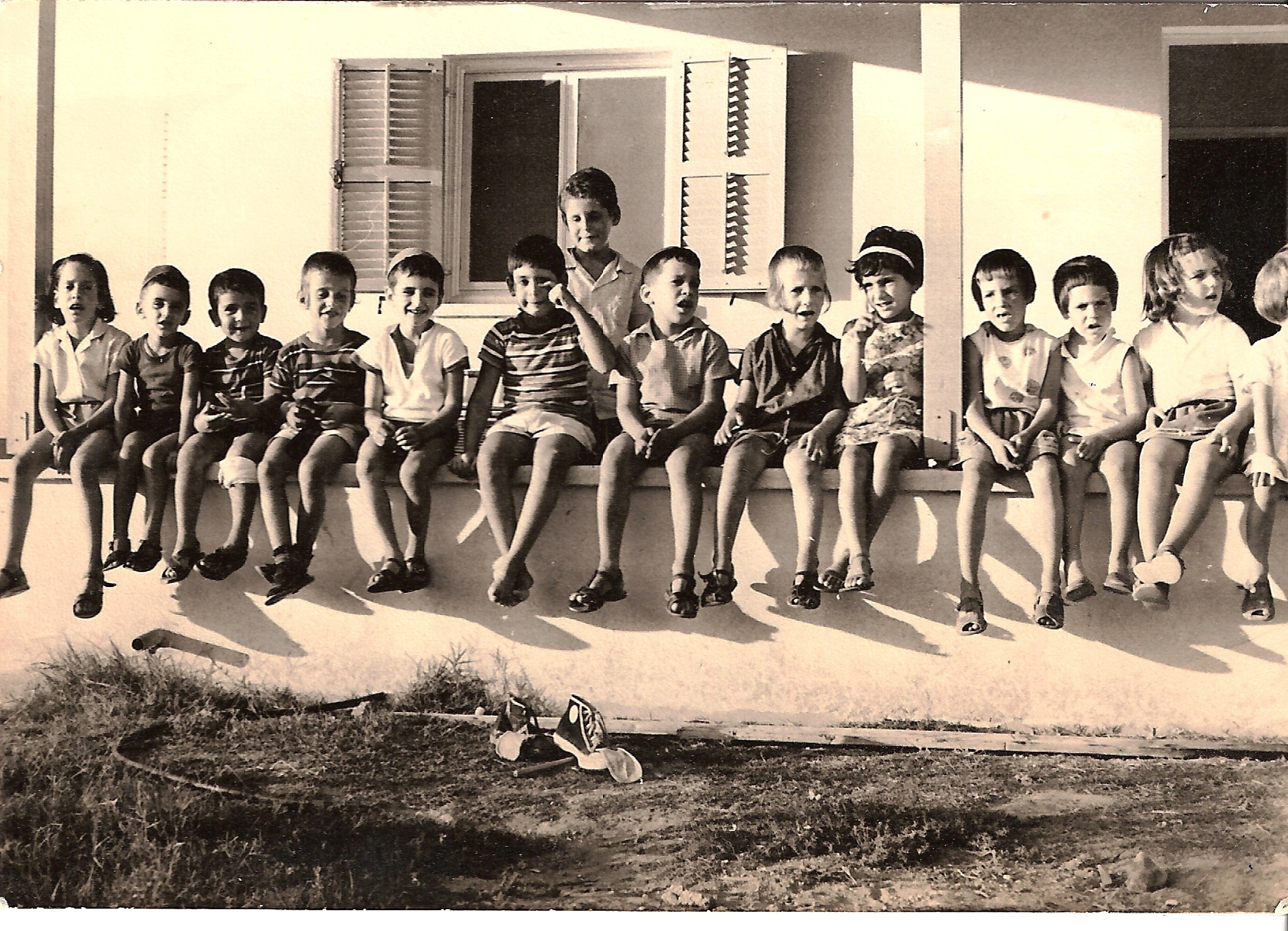 Preschool children on a house porch where the only TV set in kfar Maimon was at the time - Beny and Shifrah Domovich's house, Waiting for a children' TV show broadcasted twice a week, in the afternoons, in black and white.